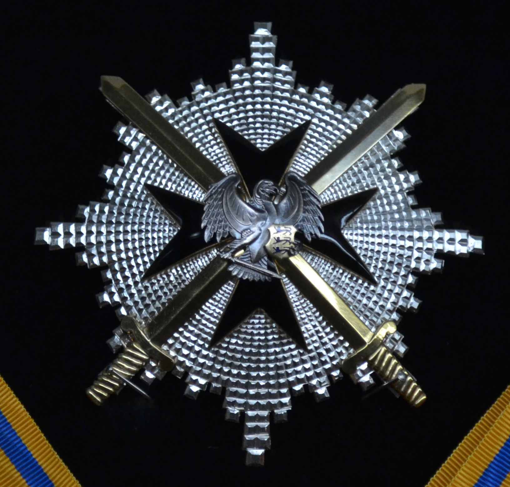 Estonia. Order of the Cross of the Eagle 1st class with Swords, breaststar. The exhibition of the Estonian State Decorations at the National Library of Estonia in Tallinn.